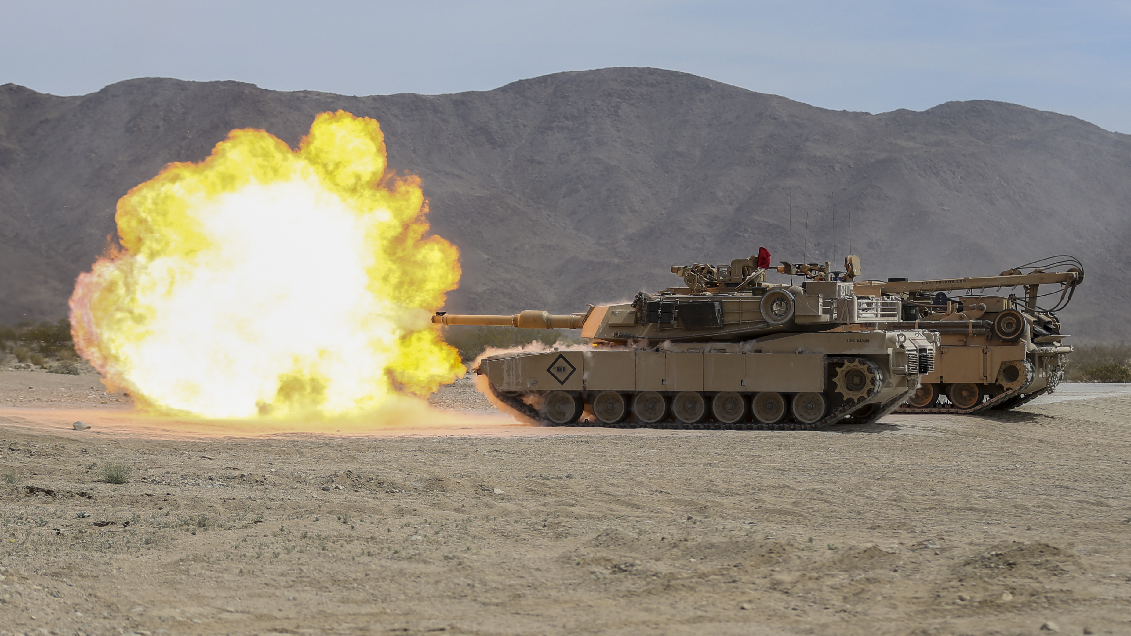 An M1A1 Abrams Tank fires off a round as a demonstration during 1st Tank Battalion’s Jane Wayne Spouse Appreciation Day aboard the Marine Corps Air Ground Combat Center, Twentynine Palms, Calif., April 3, 2018. The purpose of the event is to build resiliency in spiritual well being, the will to fight and a strong home life for the 1st Tanks Marines and their families. (U.S. Marine Corps photo by Lance Cpl. Rachel K. Porter)